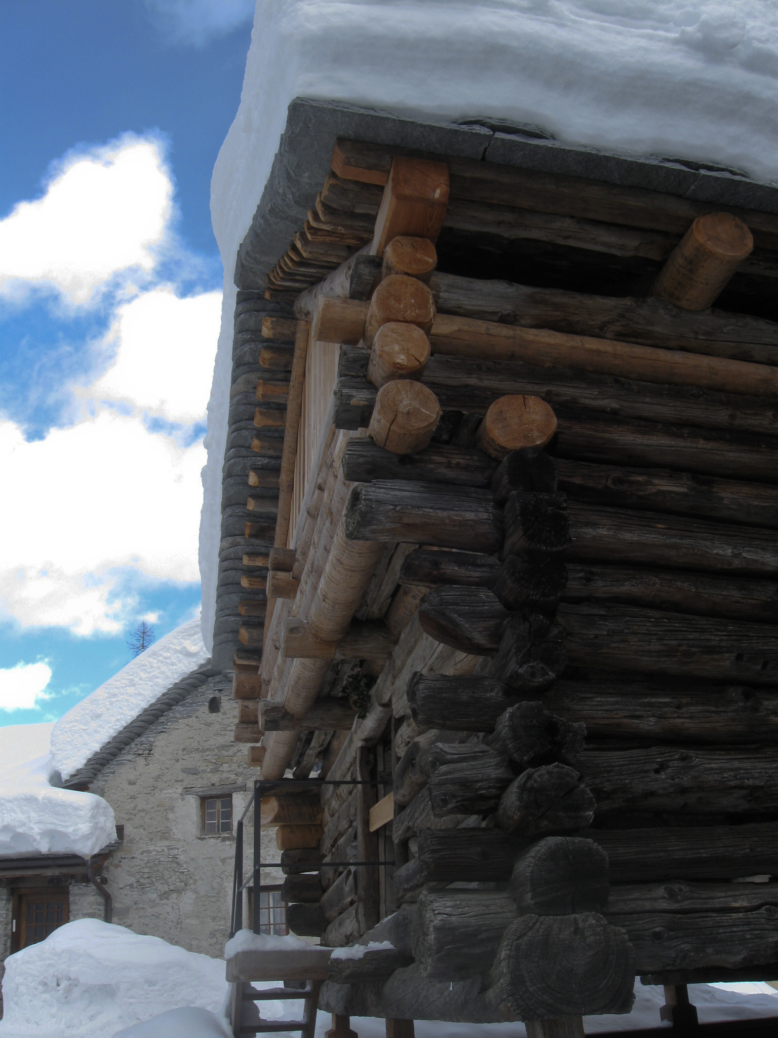 Walser house in Bosco Gurin, Ticino, Switzerland